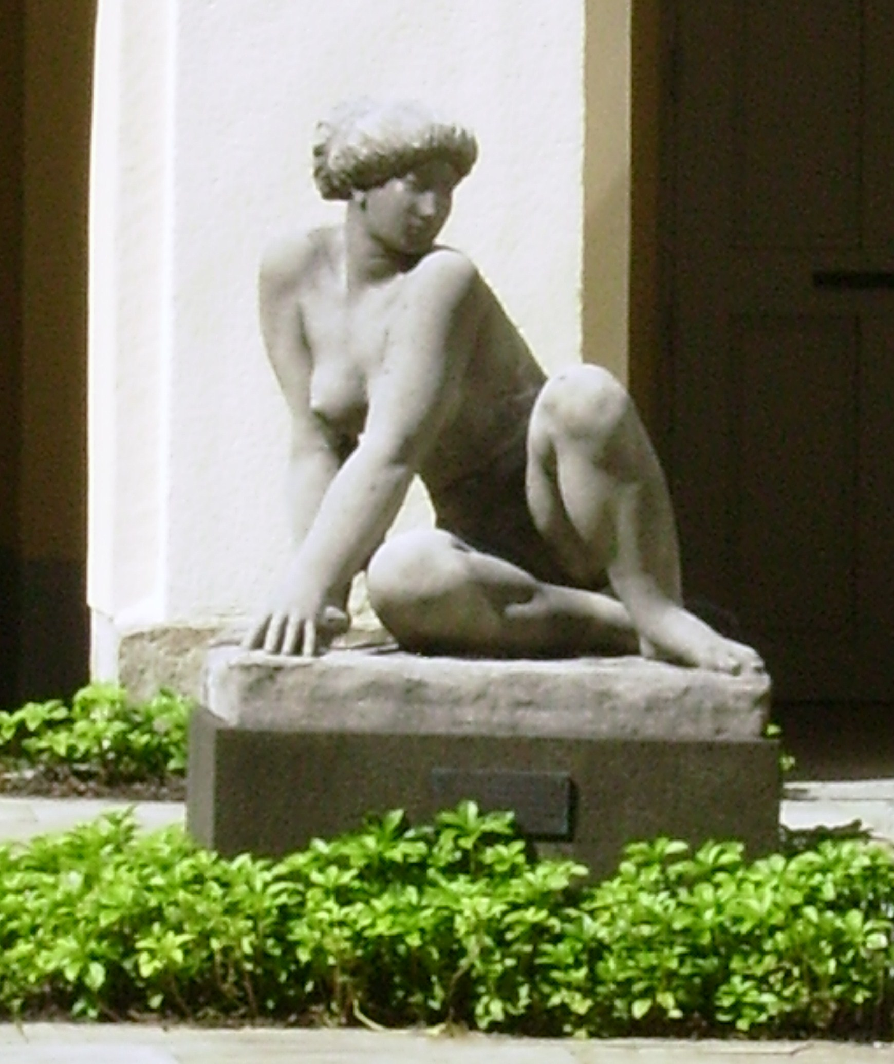 Picture of sculpture in Gothenburg, Sittande